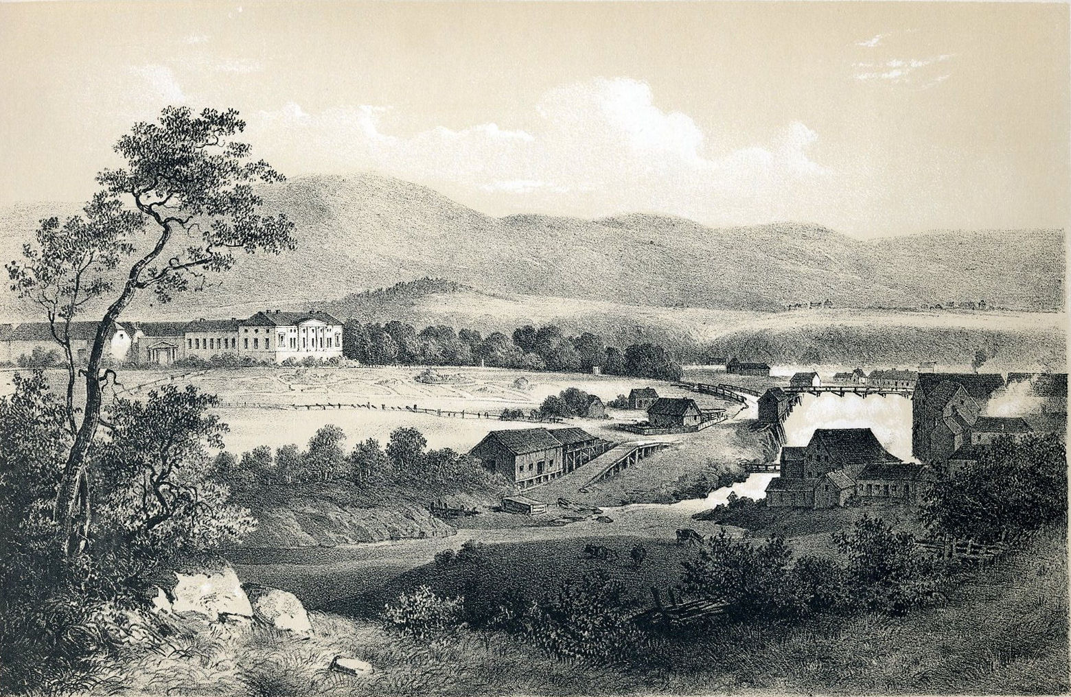 Pictures from the Work "Norge fremstillet i billder" 1848 by Chr. Tønsberg. Fossum jernverk in Gjerpen, Skien municipality, Telemark county, Norway.